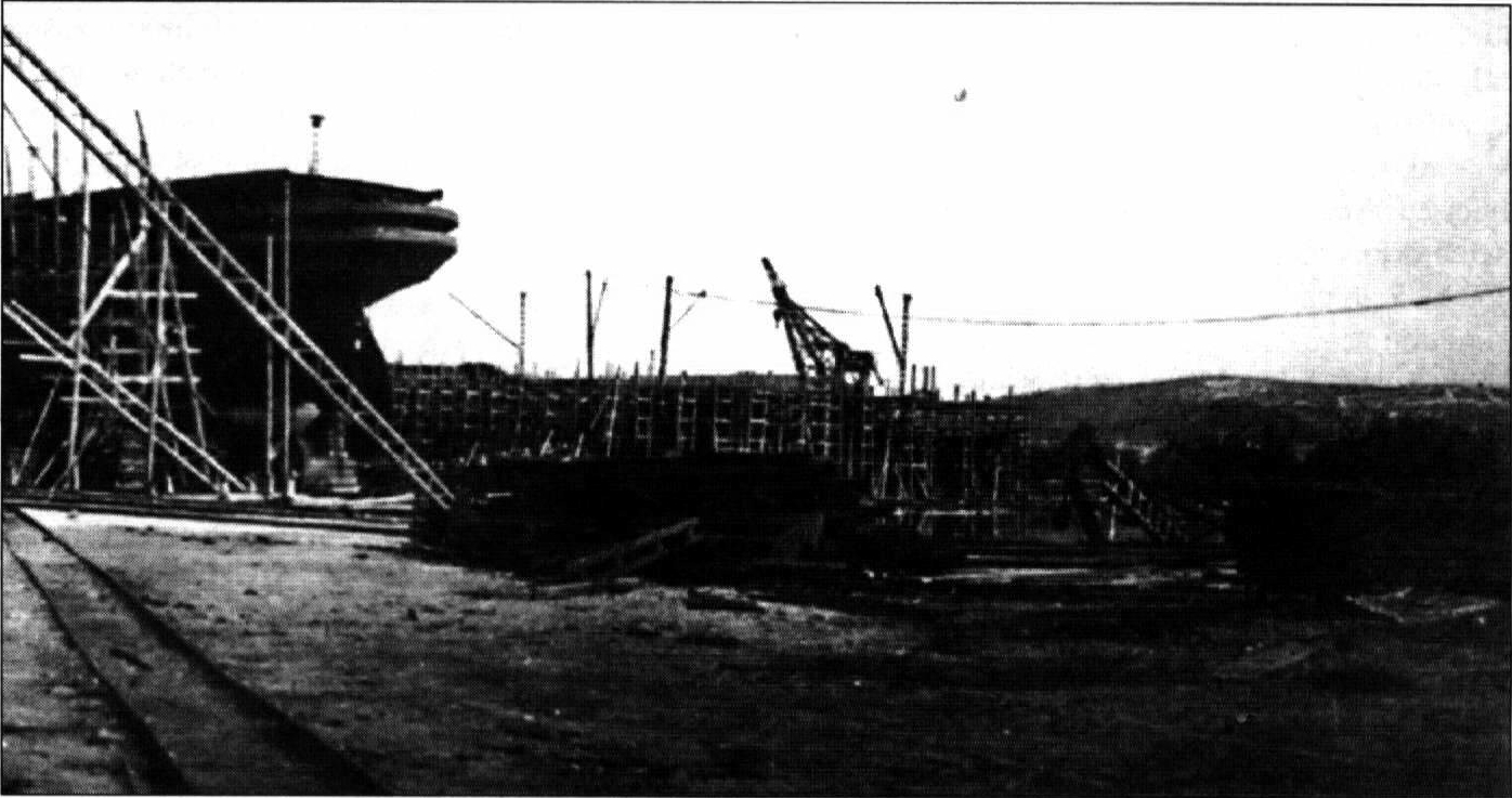 An incomplete 1800 ton Number 64-class cruiser in drydock, captured by Italian forces in Monfalcone, 1915.